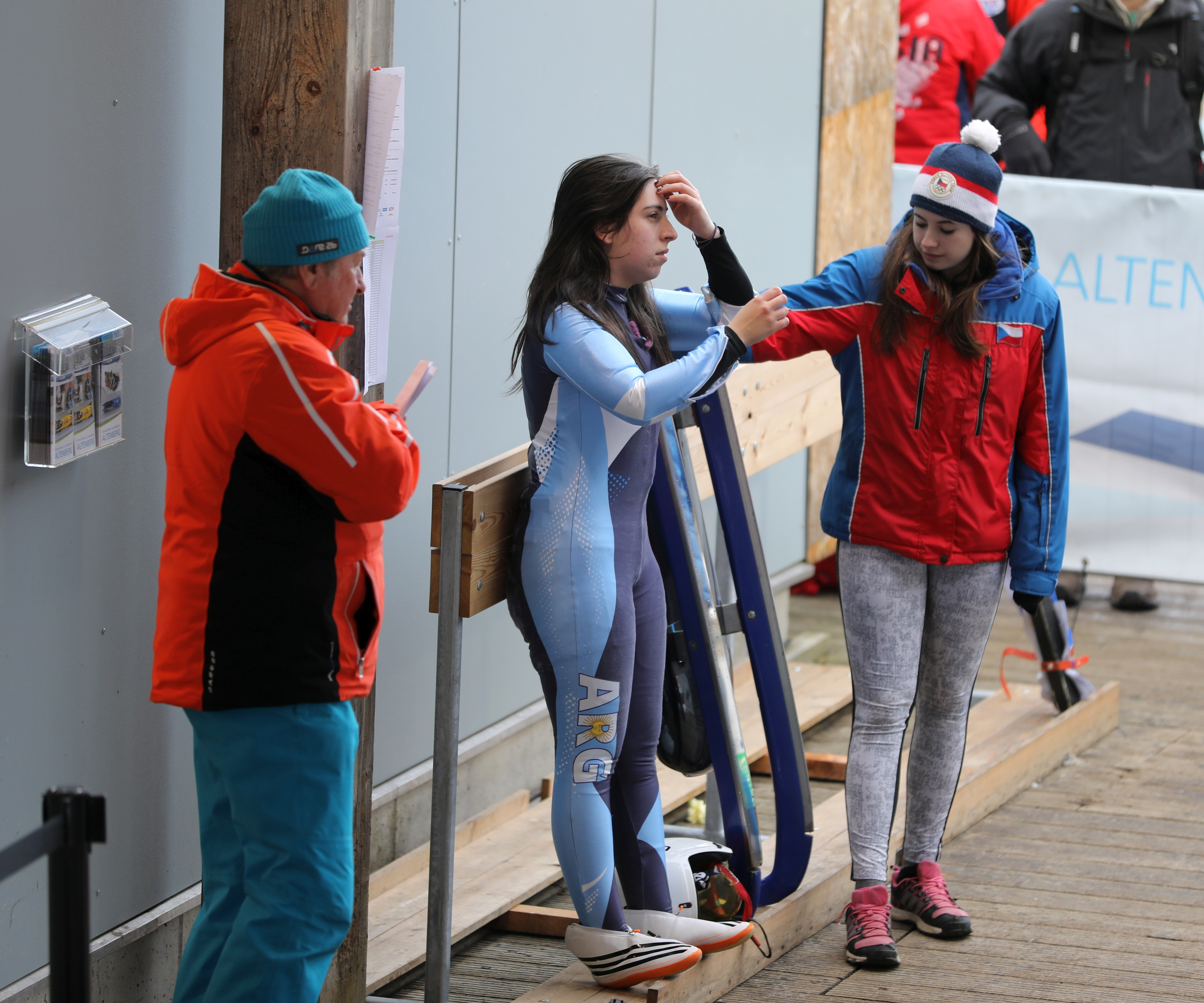 2nd and final run female juniors at the 2018 33th FIL Junior World Championships at Februar 1st alt Altenberg, Germany (names in categories)